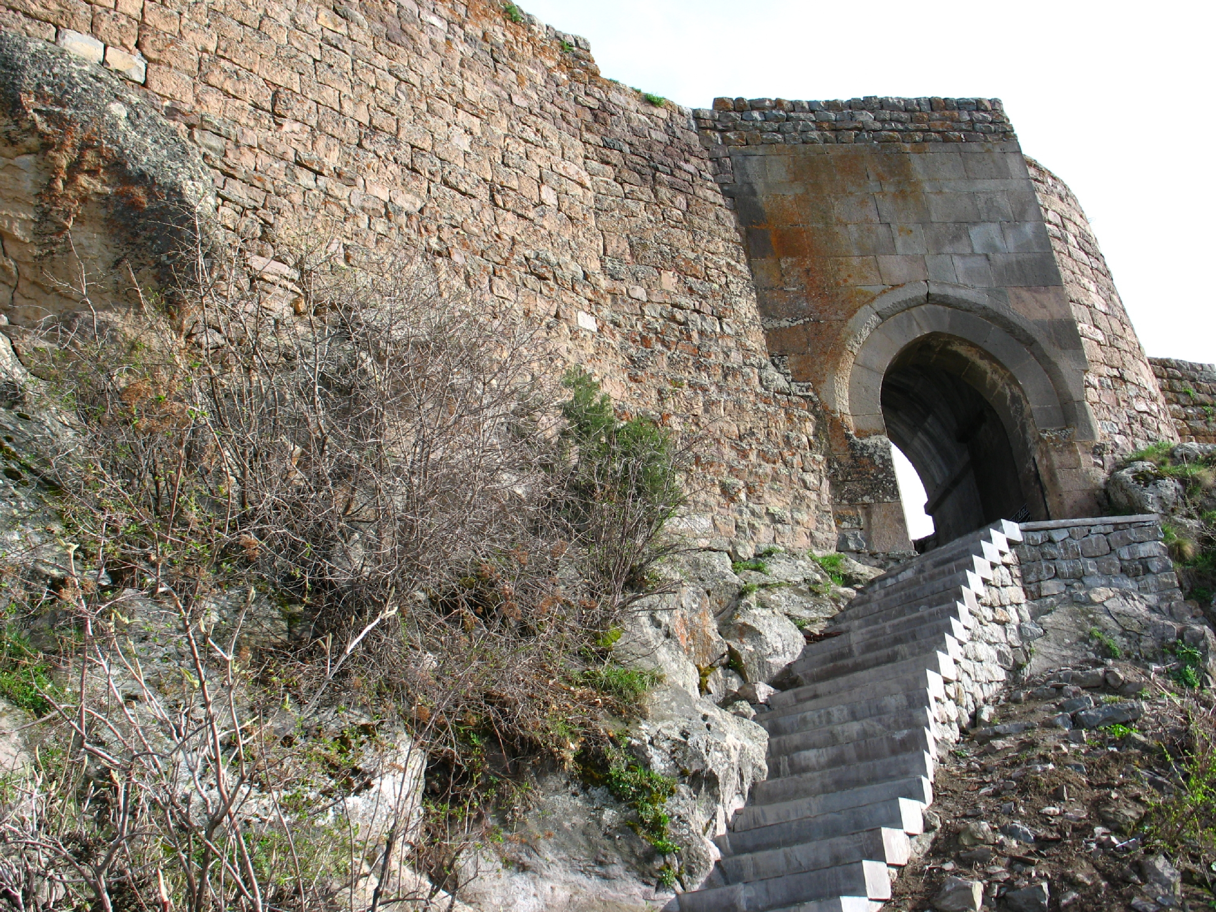 Սմբատաբերդ 10/1